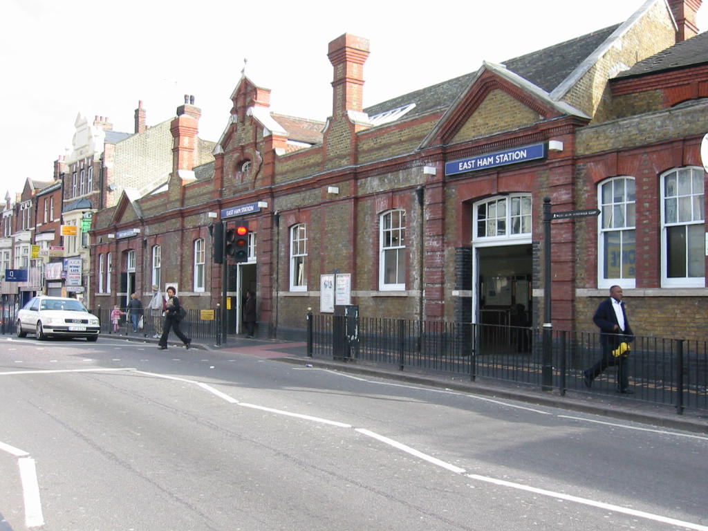 East Ham tube station, London.